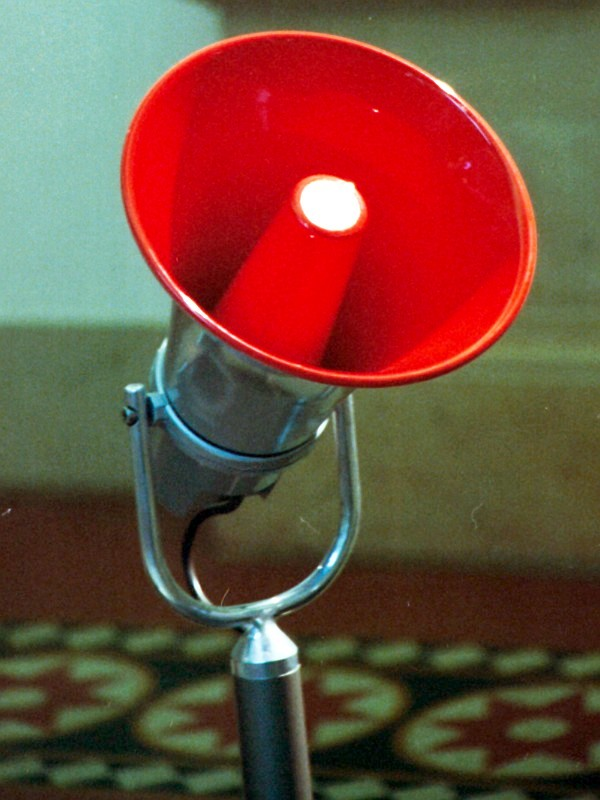 Public address horn loudspeaker (megaphone) on swivel stand.